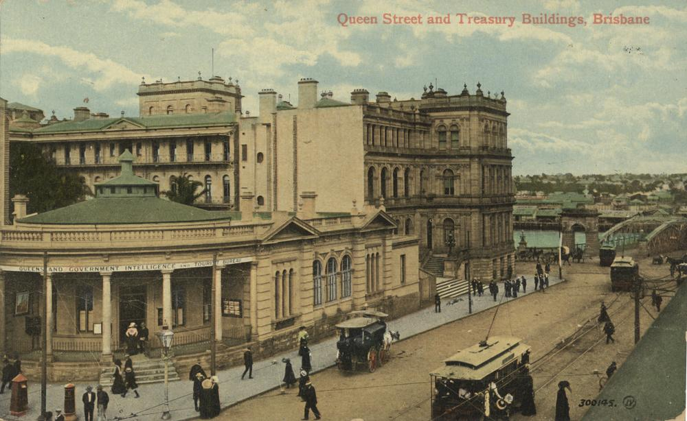 Queensland Government Treasury Buildings, Queen Street, Brisbane, ca.1907. Part of the Valentine Series of postcards.